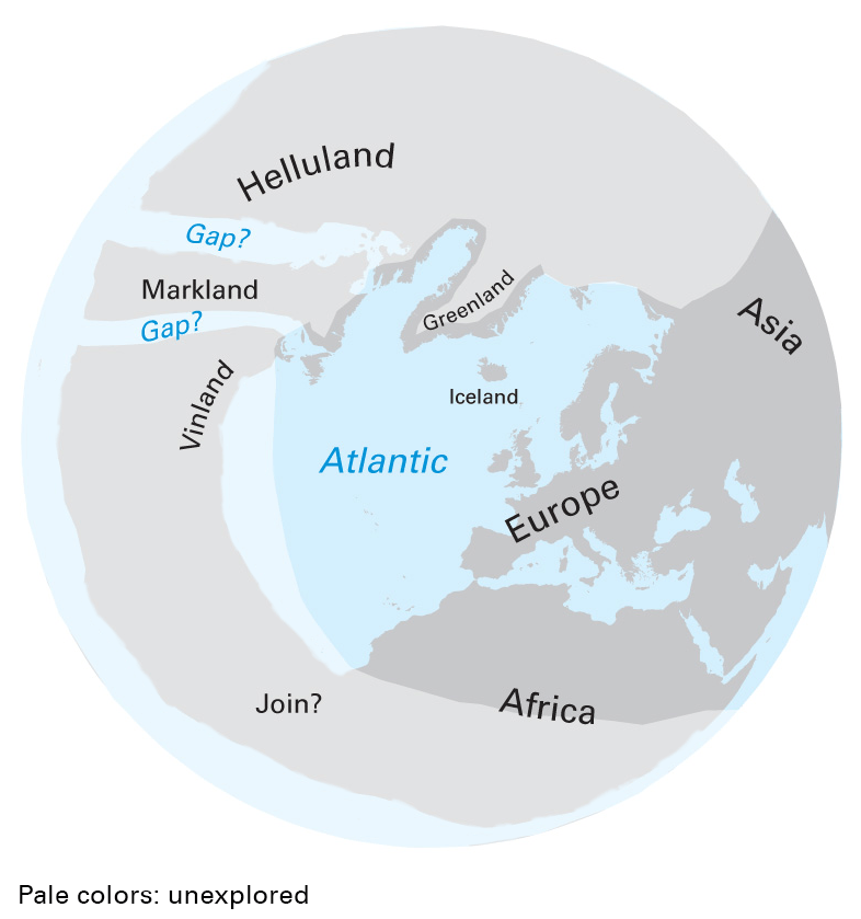 Map showing the exent of Norse explorations